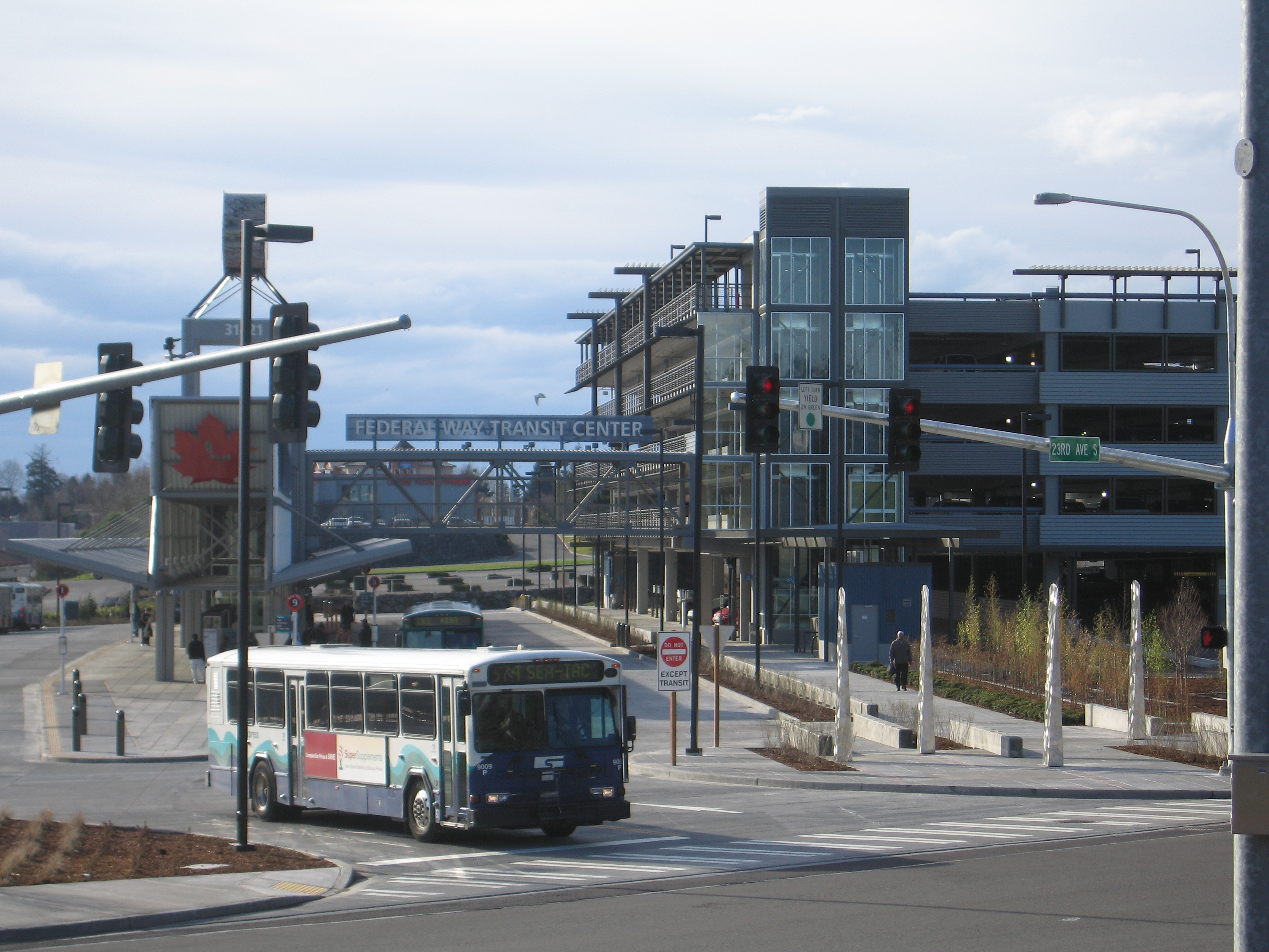 Federal Way Transit Center in Federal Way, Washington